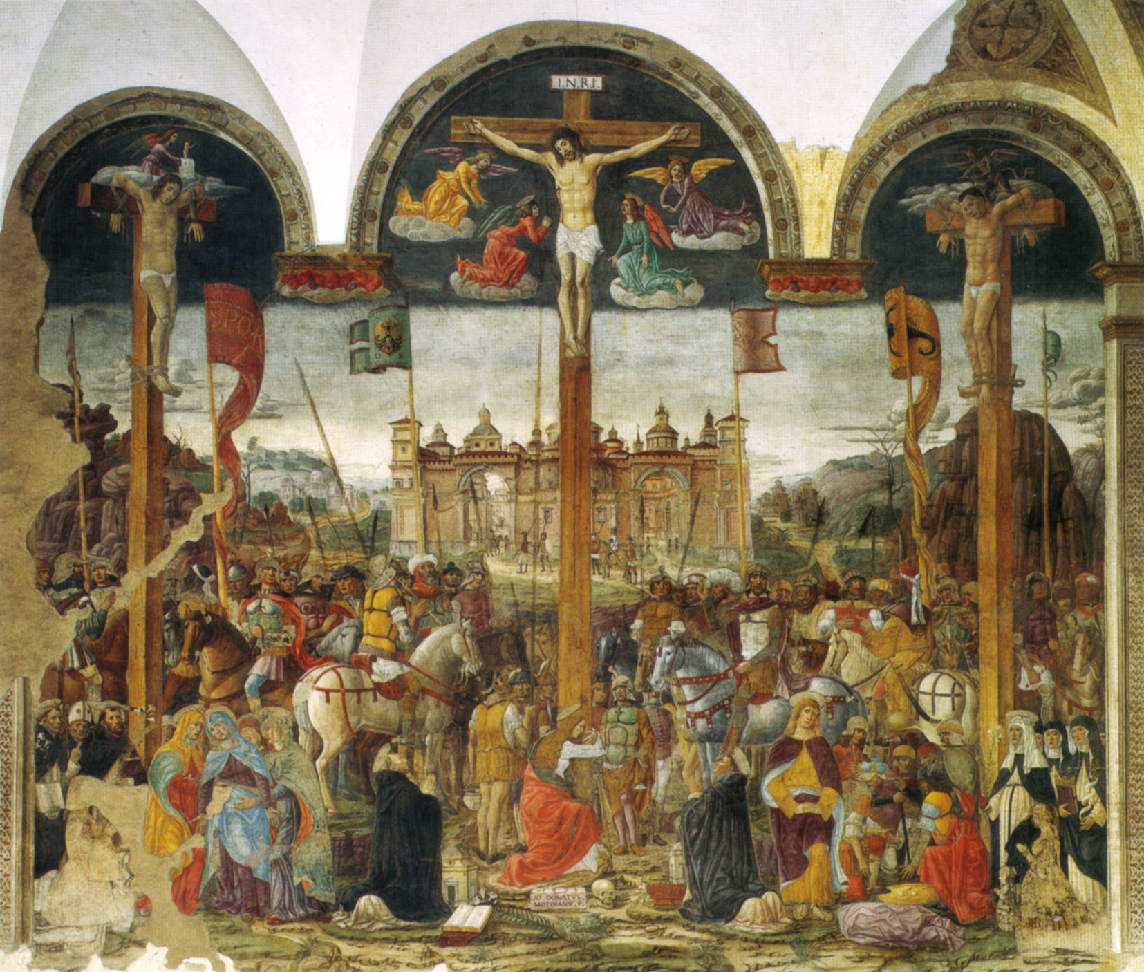 LEONARDO da Vinci Portrait of the Dukes of Milan with their sons Mixed technique, 90 cm (base) each Convent of Santa Maria delle Grazie, Milan